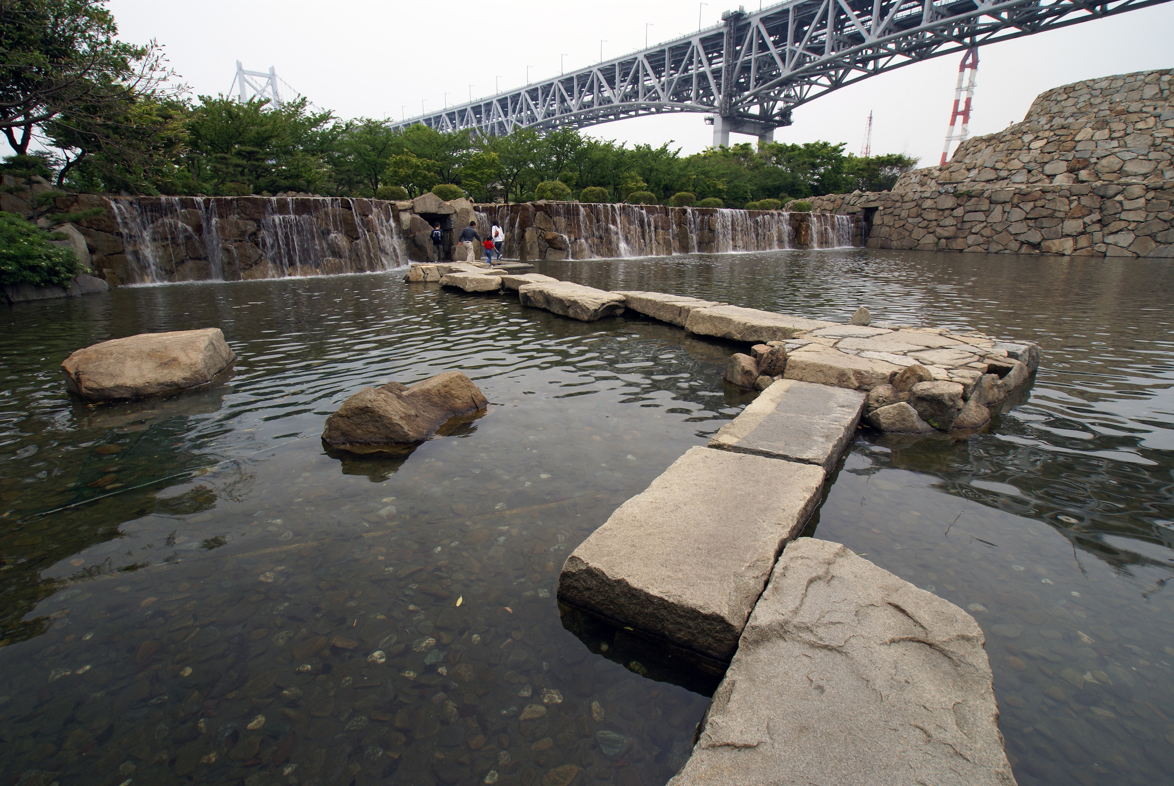 Great Seto Bridge Memorial Park in Sakaide, Kagawa prefecture, Japan